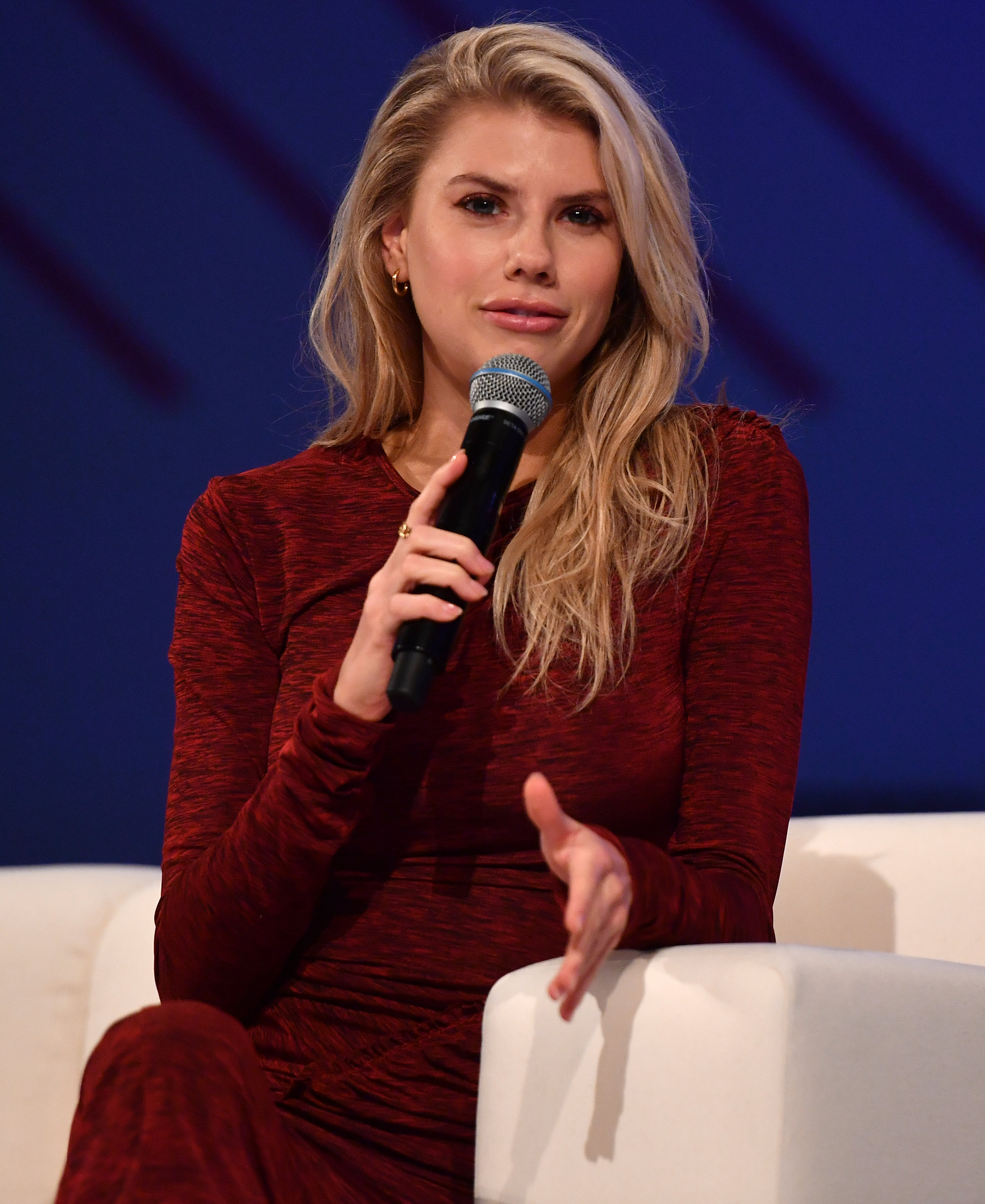 8 November 2018; Charlotte McKinney, Model & Actres, on MODUM Stage during day three of Web Summit 2018 at the Altice Arena in Lisbon, Portugal. Photo by Sam Barnes/Web Summit via Sportsfile